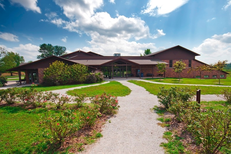 The George Washington Carver National Monument visitor center has information, a museum, interactive exhibits about history and science, classrooms for programs on Carver's life, an observation deck, a film, and bookstore.